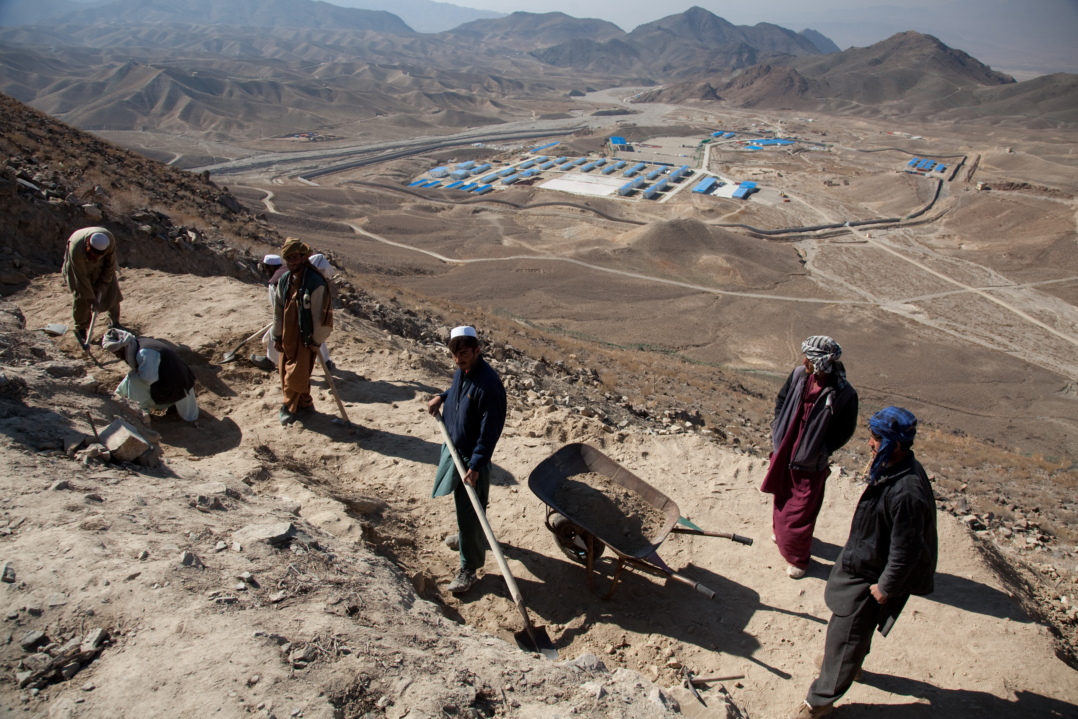 The Chinese state owned mining company MCC have built a camp at Mes Ainak, 35km south of Kabul, while archeologists are racing to excavate a series of ancient Buddhist monasteries before the bulldozers roll in. The Afghan government is desperate for the copper royalites, once mining starts, but officials familiar with the deal said the Chinise, having secured the rights to the deposit, appear to be in no hurry to start exploiting it. They are supposed to build a railway and a power station, but have not started either.